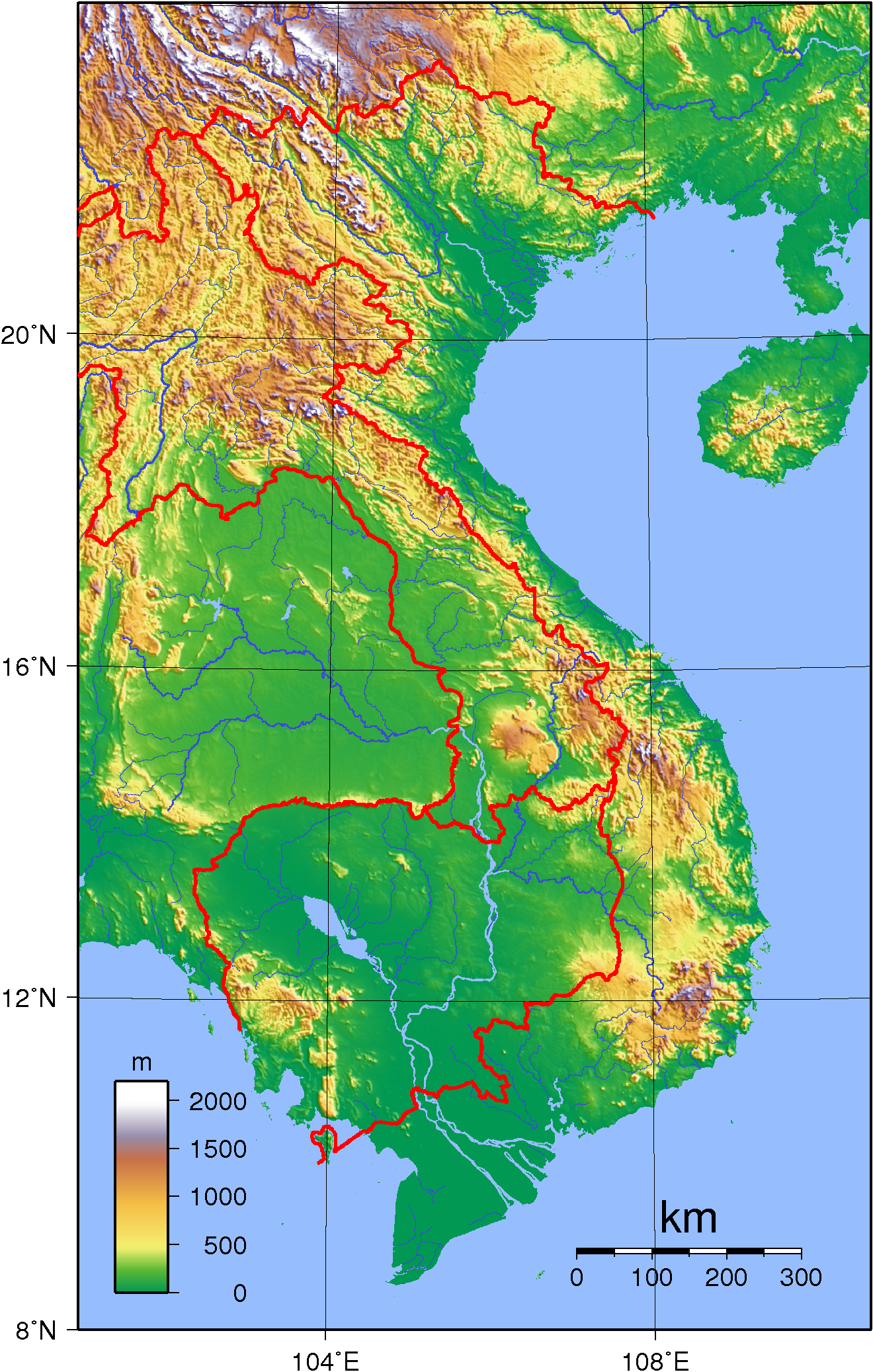 Topographic map of Vietnam. Created with GMT from publicly released GLOBE data[1].